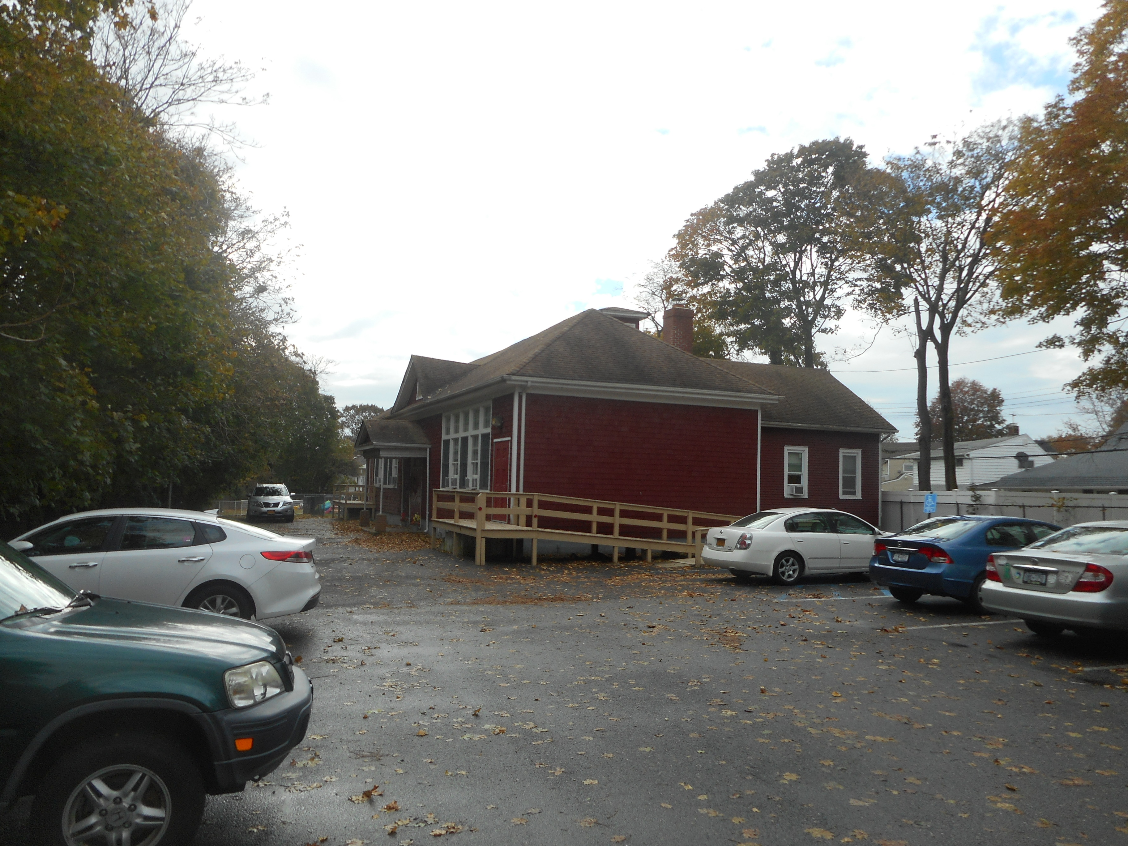 The NRHP-listed Jerusalem District Number 5 School House at 3510 Old Jerusalem Road in Levittown, New York. Now a local pre-school.